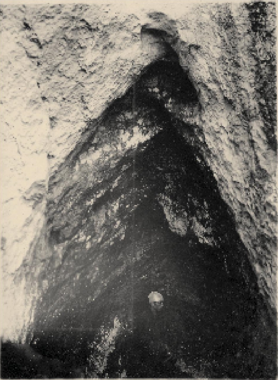 Farkas-kő Cave in Hungary.